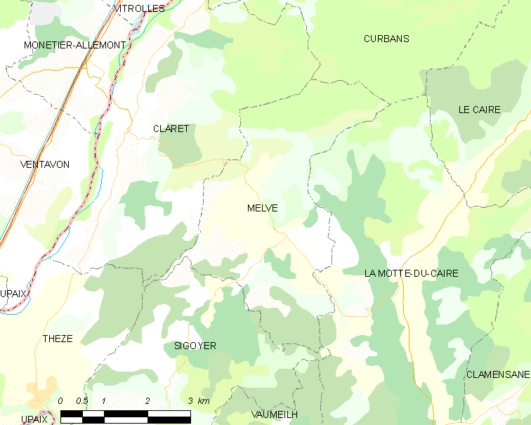 Map commune FR insee code 04118.png Légende